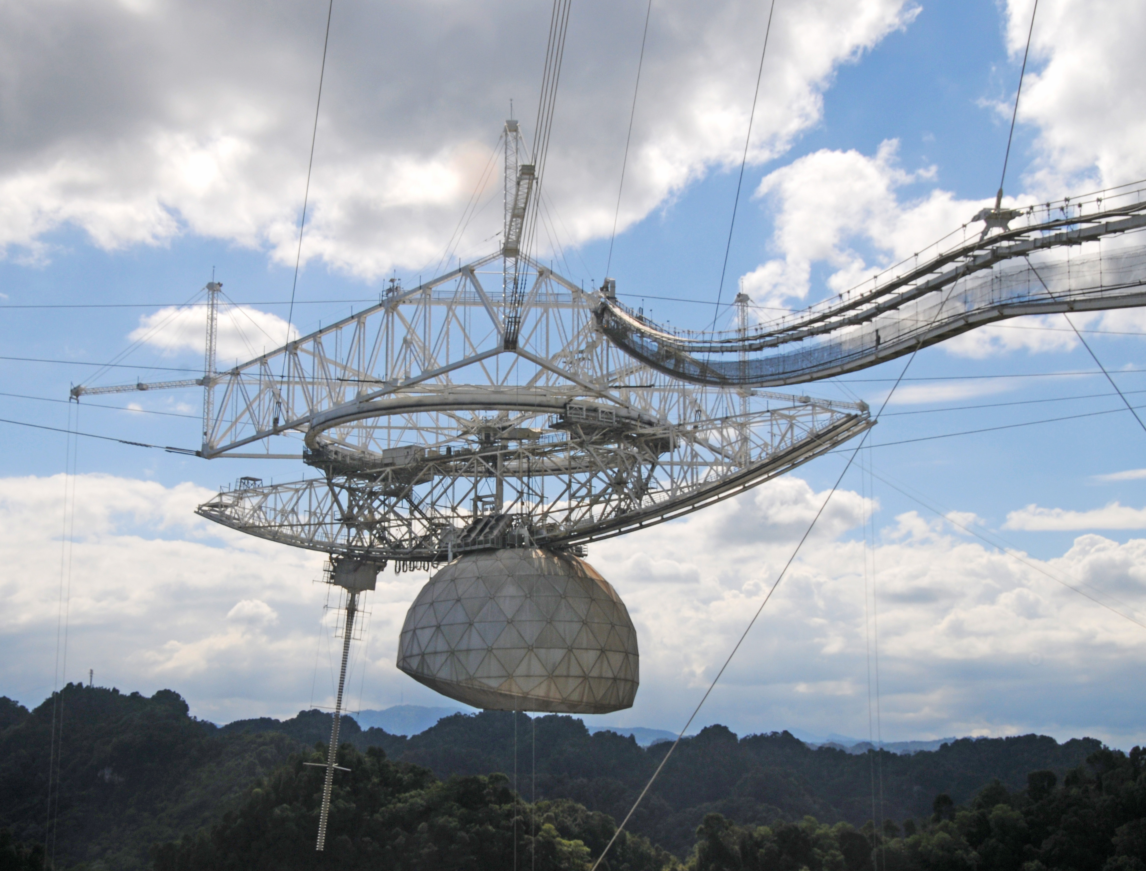 Arecibo Observatory Radio Telescope